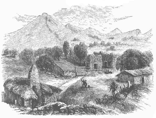 An 1864 drawing of Mowry, Arizona by John Ross Browne from his book "Adventures in the Apache Country."